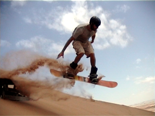 Sandboarder going off a jump